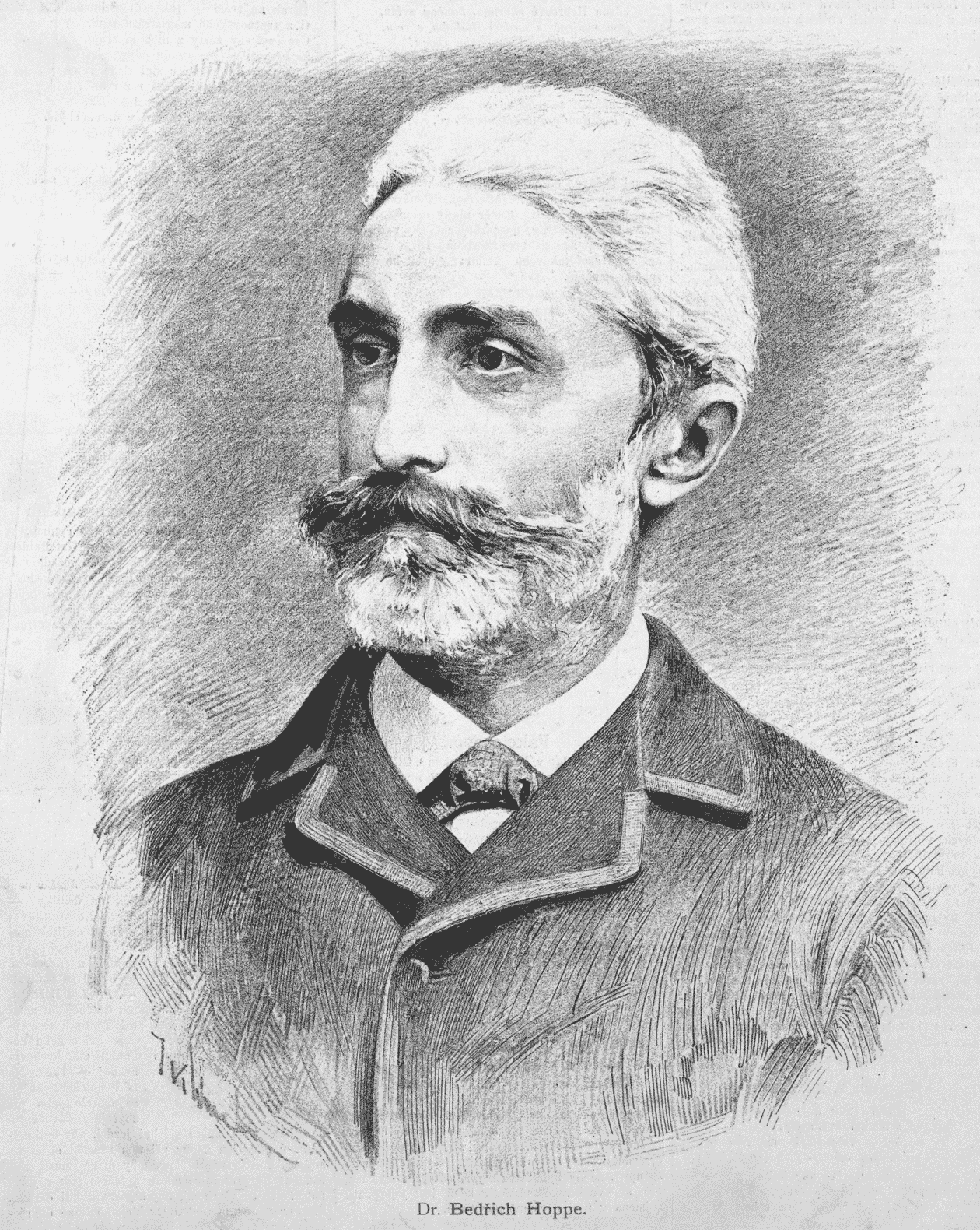 Portrait of Bedřich Hoppe (1838 - 1884), organizer of Czech-language schools and culture in Brno.